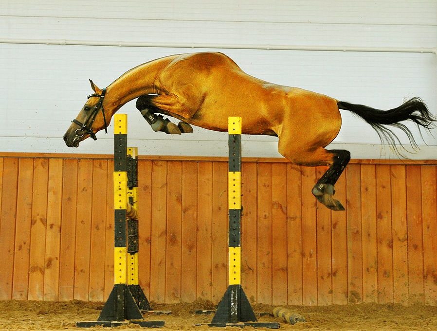 Akhal-teke stallion Dirkhan, 2009 (Dargan-Formoza) line Kaplan